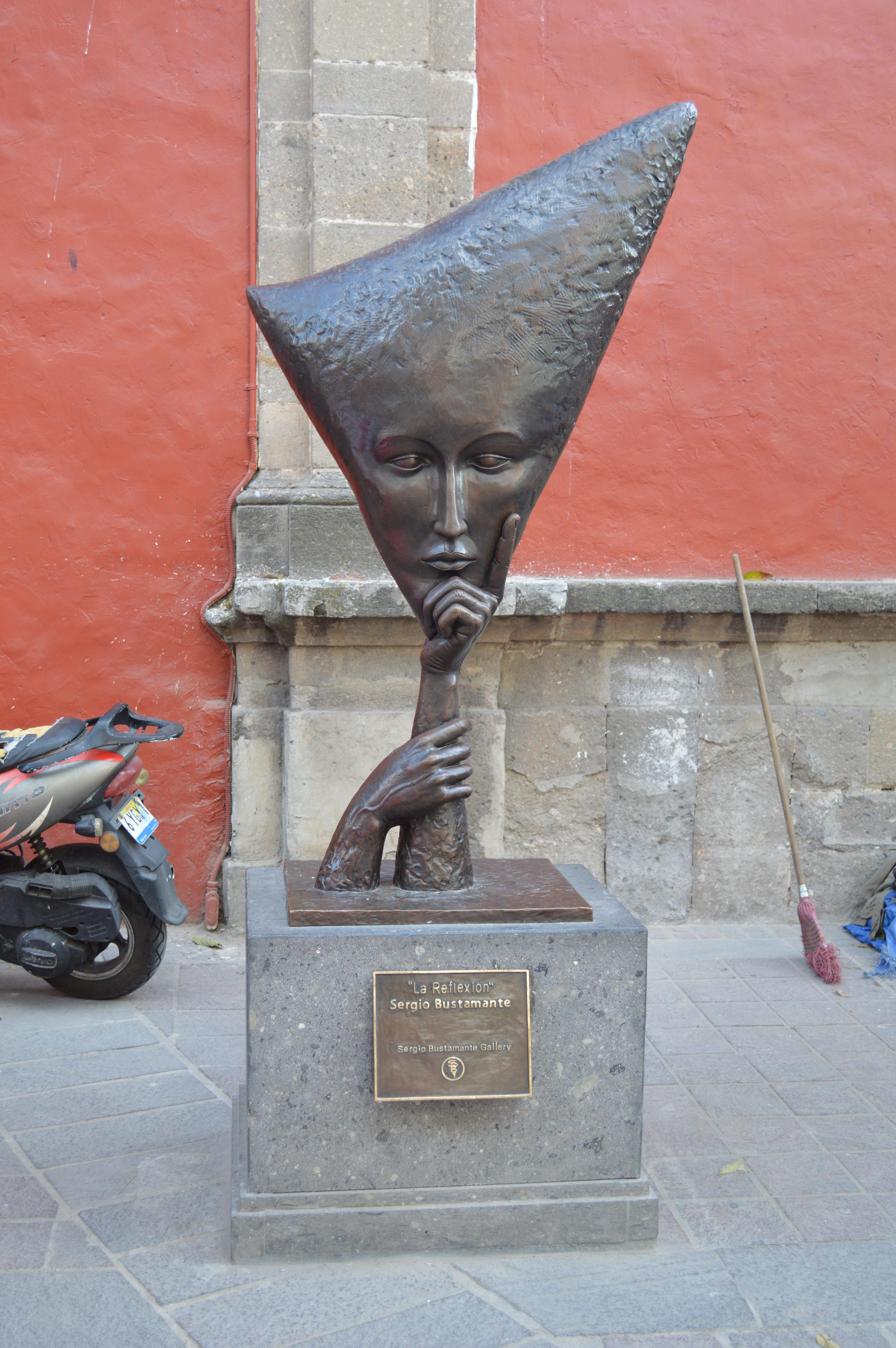 "La Reflexion" by Sergio Bustamante on Independence Street in Tlaquepaque, Jalisco, Mexico